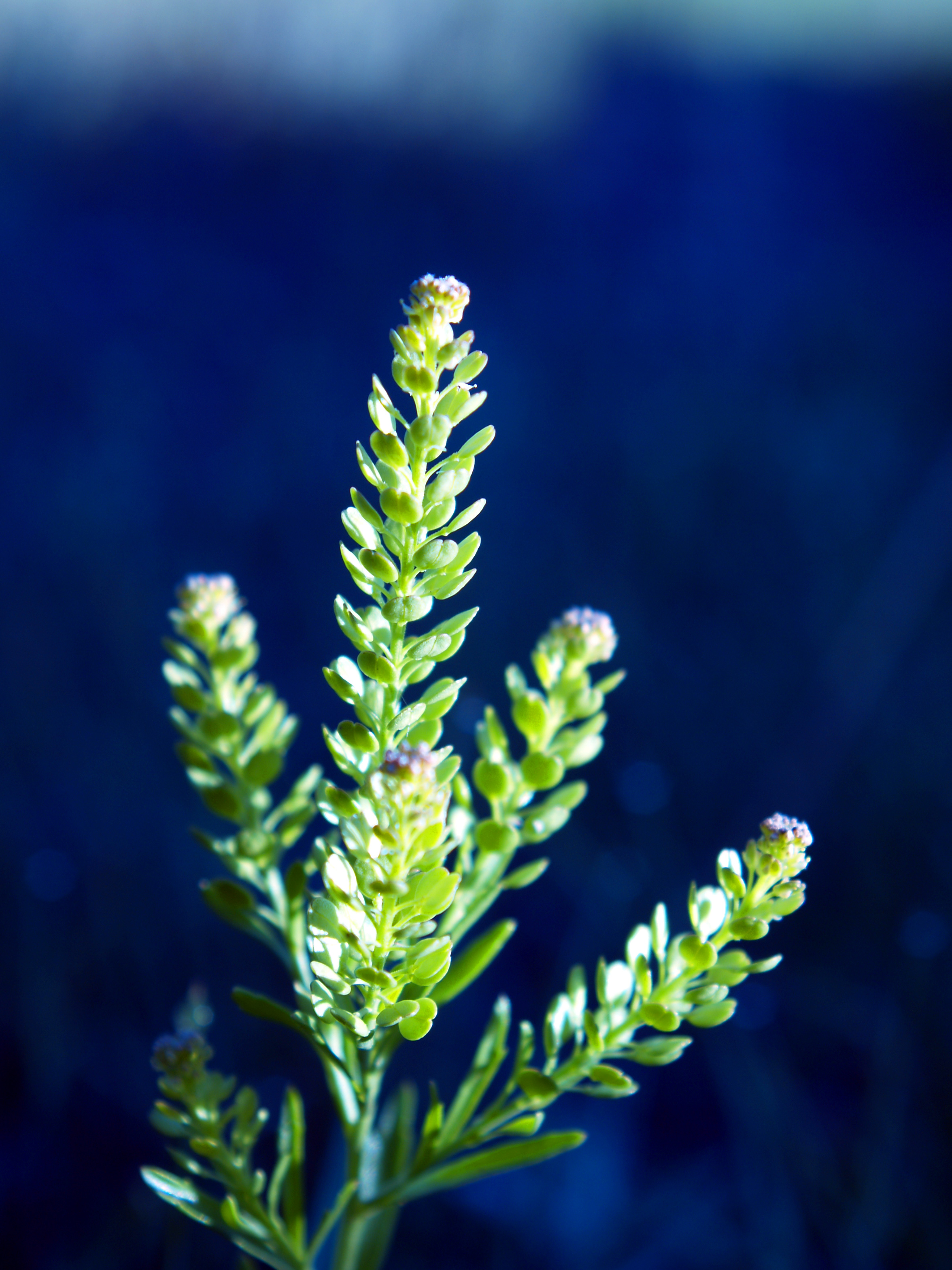 Lepidium densiflorum, at Wind Cave National Park, South Dakota, USA